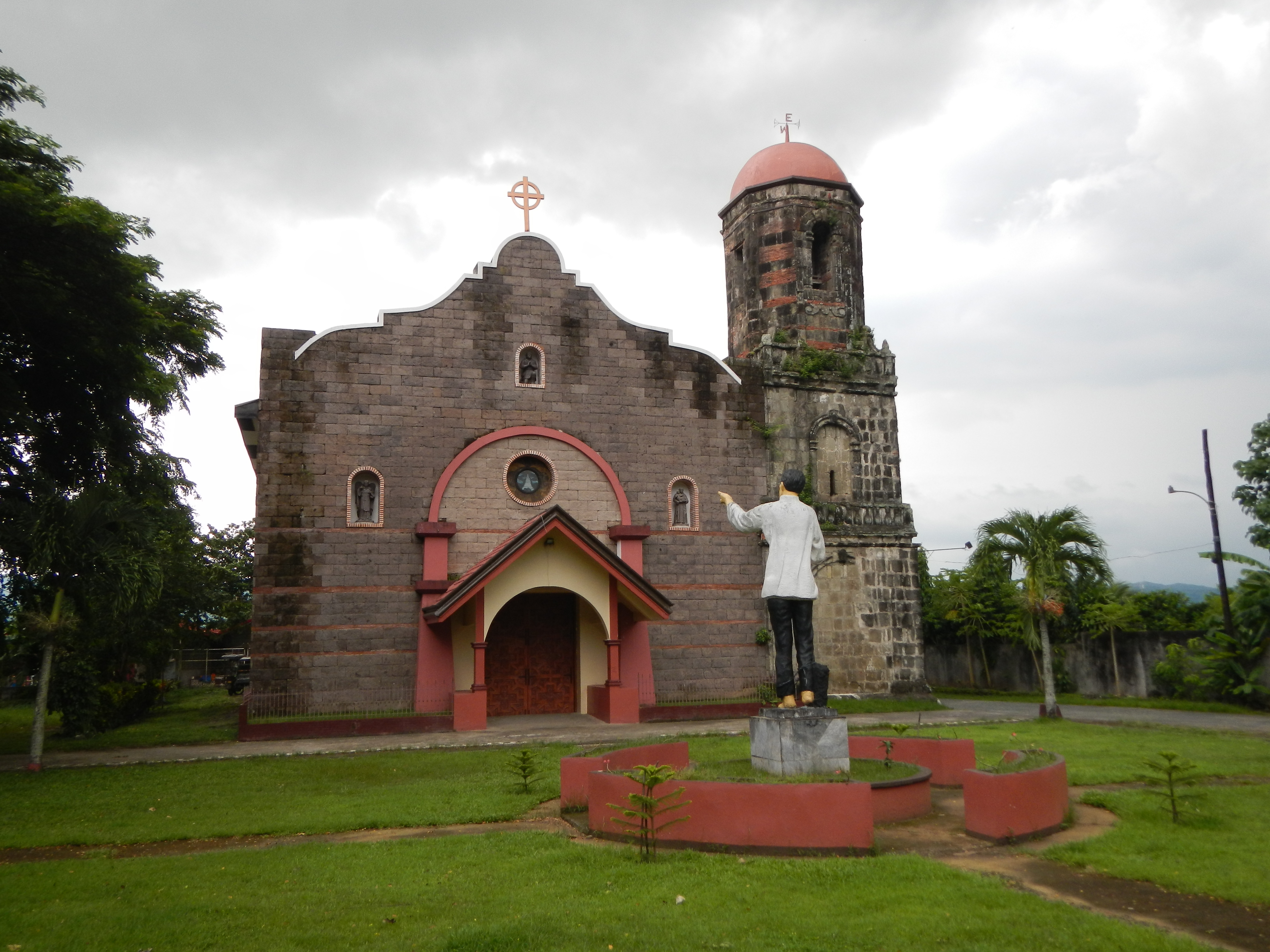 UploadWizard -- (general description - a 3 dimensional photography, angles by angles of the Town hall, plaza, landmarks, heritage Church) of Mabitac, Laguna[1] - the scenery, greens, blue mountains ranges, hills, buildings, and heritage of surrounding the - Nuestra Señora de Candelaria Parish Church of Mabitac - Mabitac, Laguna[2] - [3] belongs to the [4] Roman Catholic Diocese of San Pablo - Vicariate of Saints Peter and Paul Episcopal District IV[5] 1611 - The church was built July 18,1880 - seriously damaged by an Earthquake August 20,1937 - again damaged by an Earthquake is located on top of Kalbaryo Hill, Brgy. Maligaya, Mabitac Laguna.[6] can be reached by a 129 steps from the main road with a well whose water with curative powers; Cristobal de Mercado gave the image of the Nuestra Senora de Cadelaria to Paco in 1600 removed from Siniloan in 1615[7] [8] [9] [10] Rev. Fr. Anthony S. Ricafort Mahal na Birhen ng Candelaria Parish Poblacion, Mabitac [11] Feast day: February 2 Parish Priest: Father Gerardo R. Basa [12] Our Lady Of Candelaria Church [13] [14] Mabitac, Laguna[15] - [16] 14° 25' 40.31" N 121° 25' 34.39" E